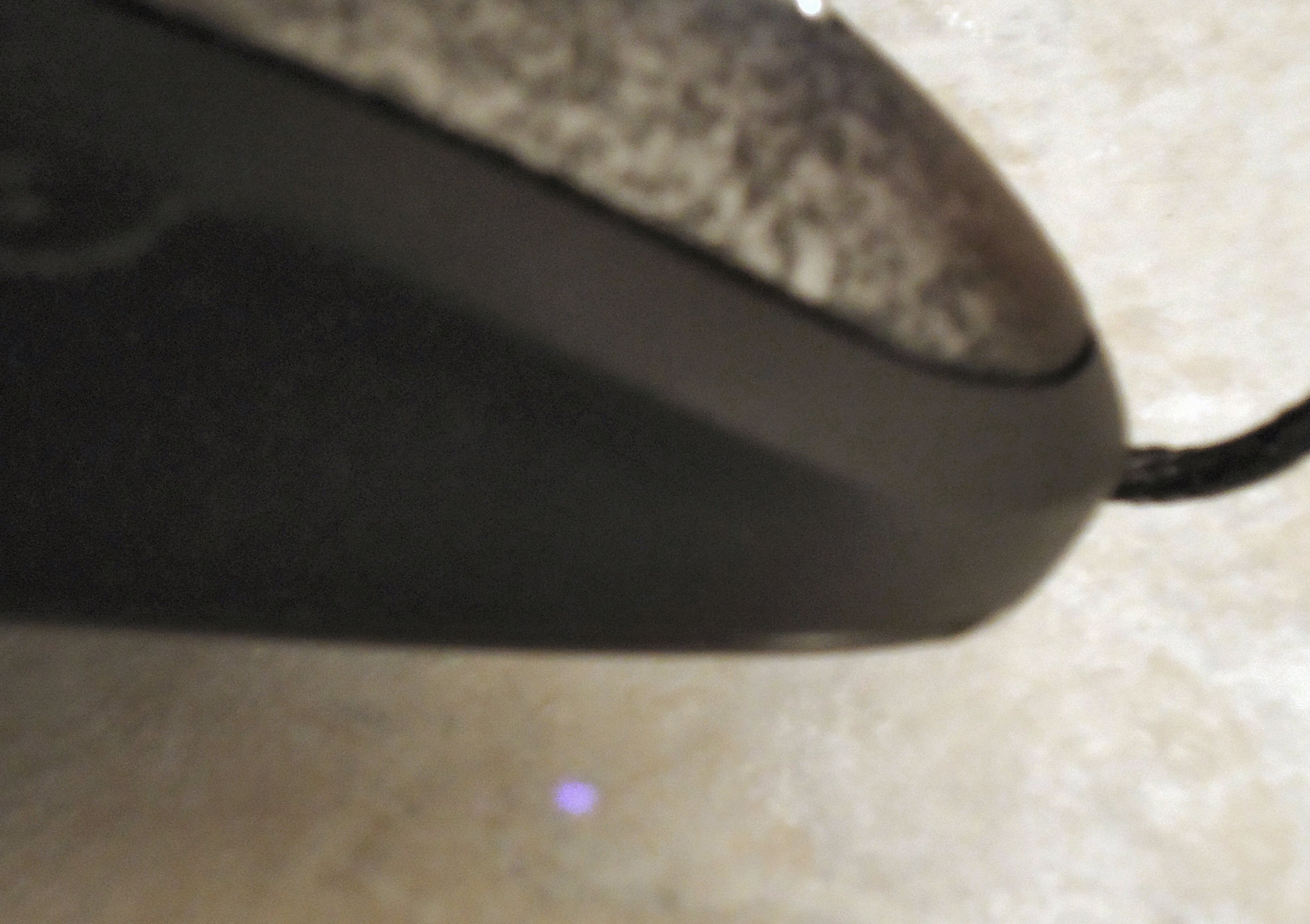 IR laser dot, shown in purple, emitted from Logitech G500 laser mouse.